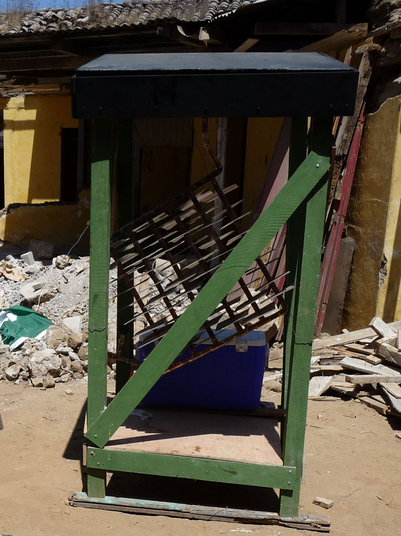 ATC and Michigan State Solar Vaccine Refrigerator